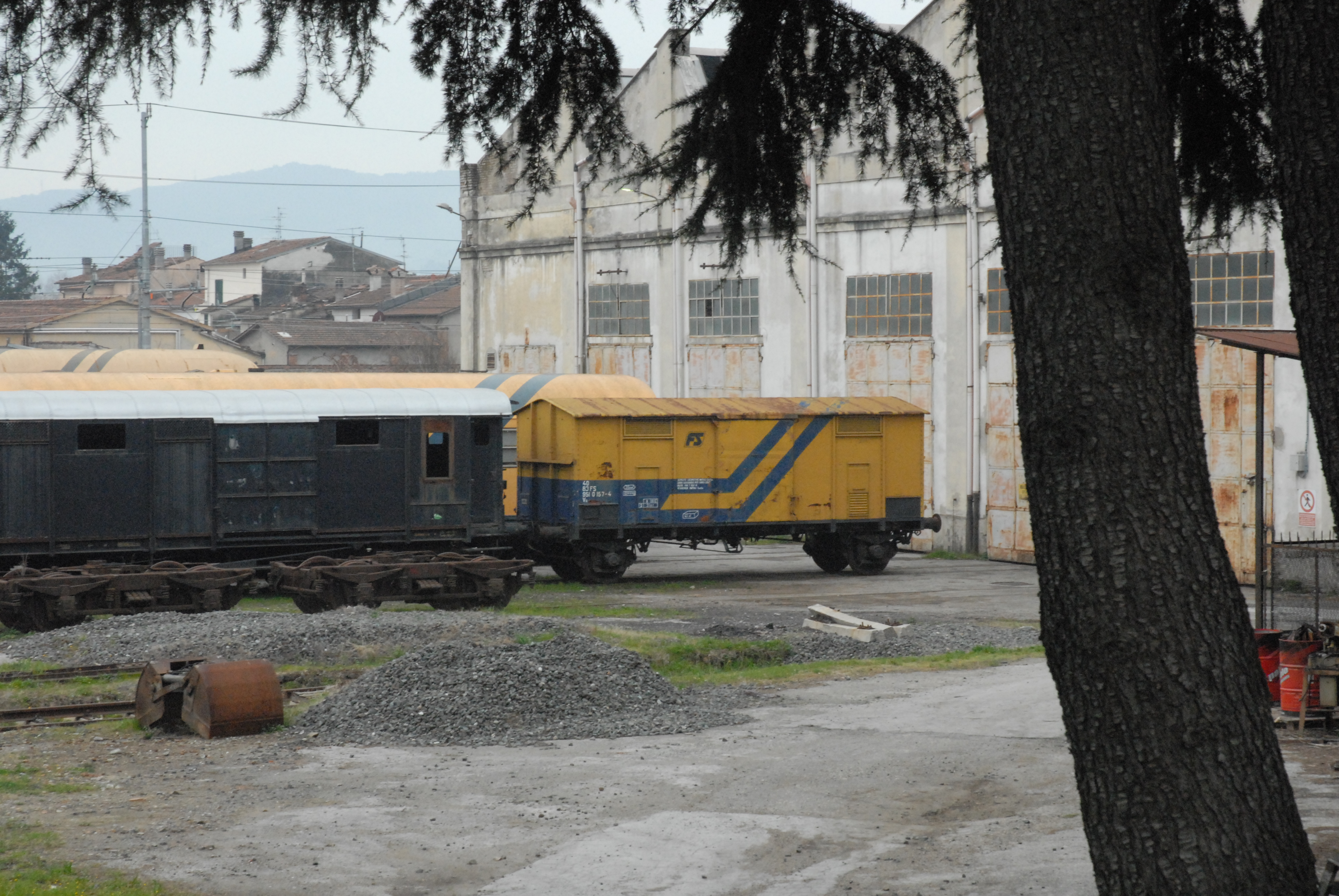 Photos from the FS railway deposit in Pistoia, Italy. Unknown wagon